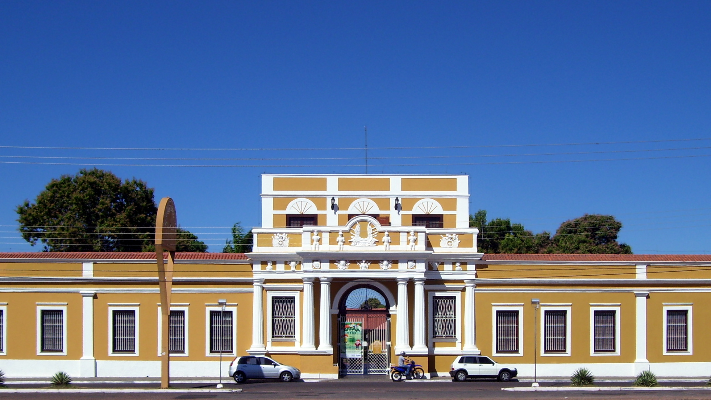 Sesc Arsenal, a cultural center in Cuiabá, Mato Grosso, Brazil. In the past, was a war arsenal.